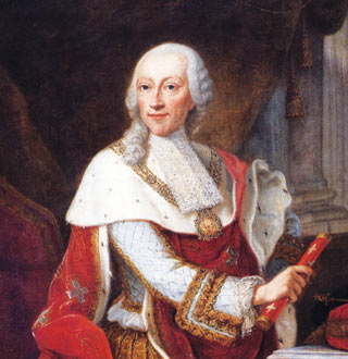 Portrait of Victor Amadeus III of Sardinia (1726-1796) (cropped)